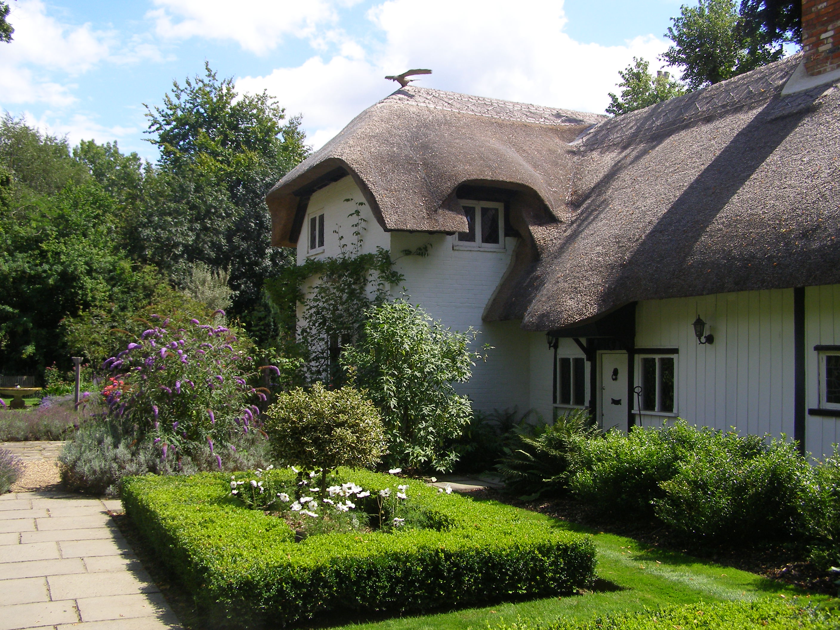 Enid Blyton's former house "Old Thatch" near Bourne End, Buckinghamshire, England